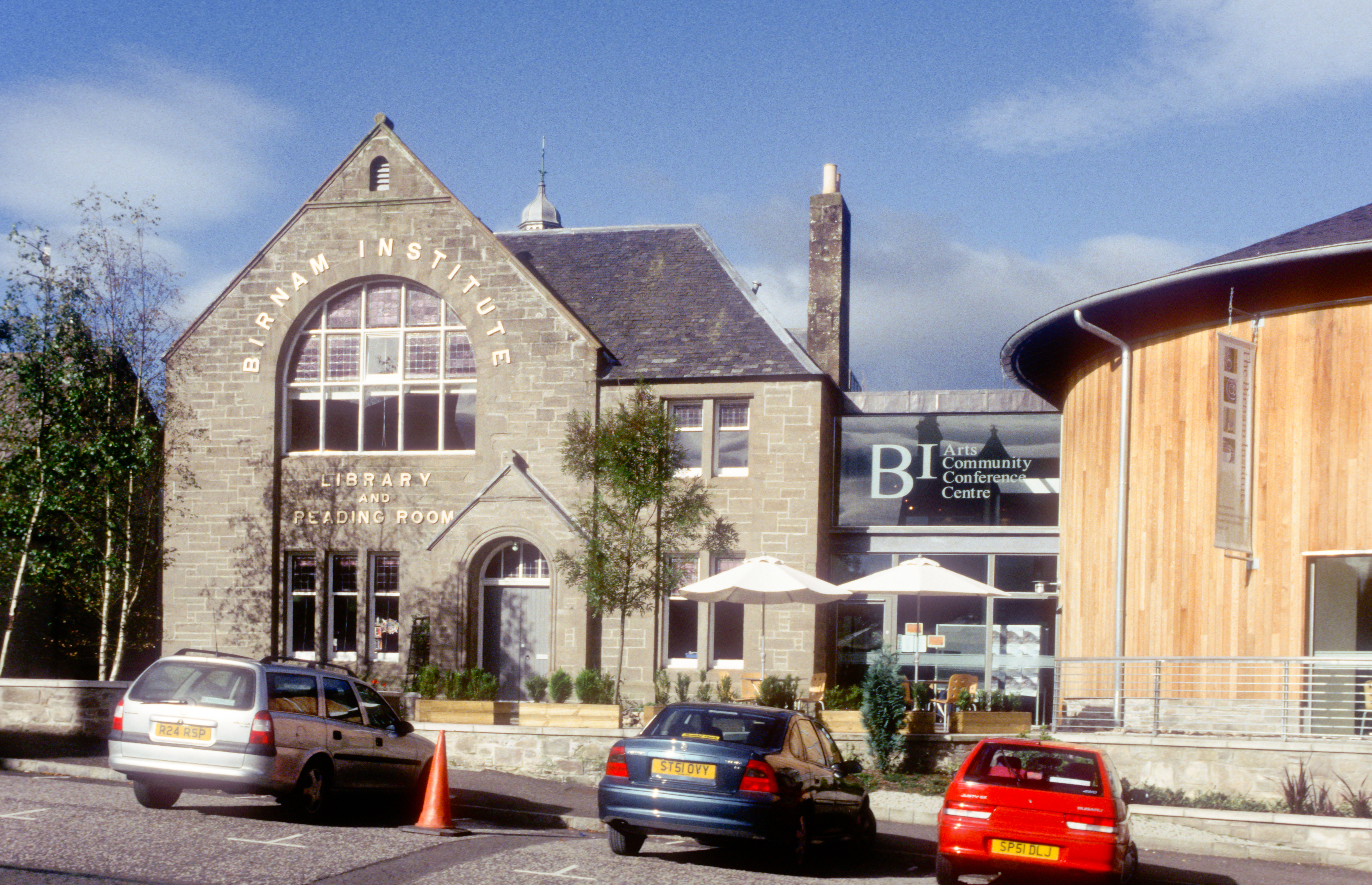 The Birnam Institute, Dunkeld, Perthshire from Station Road